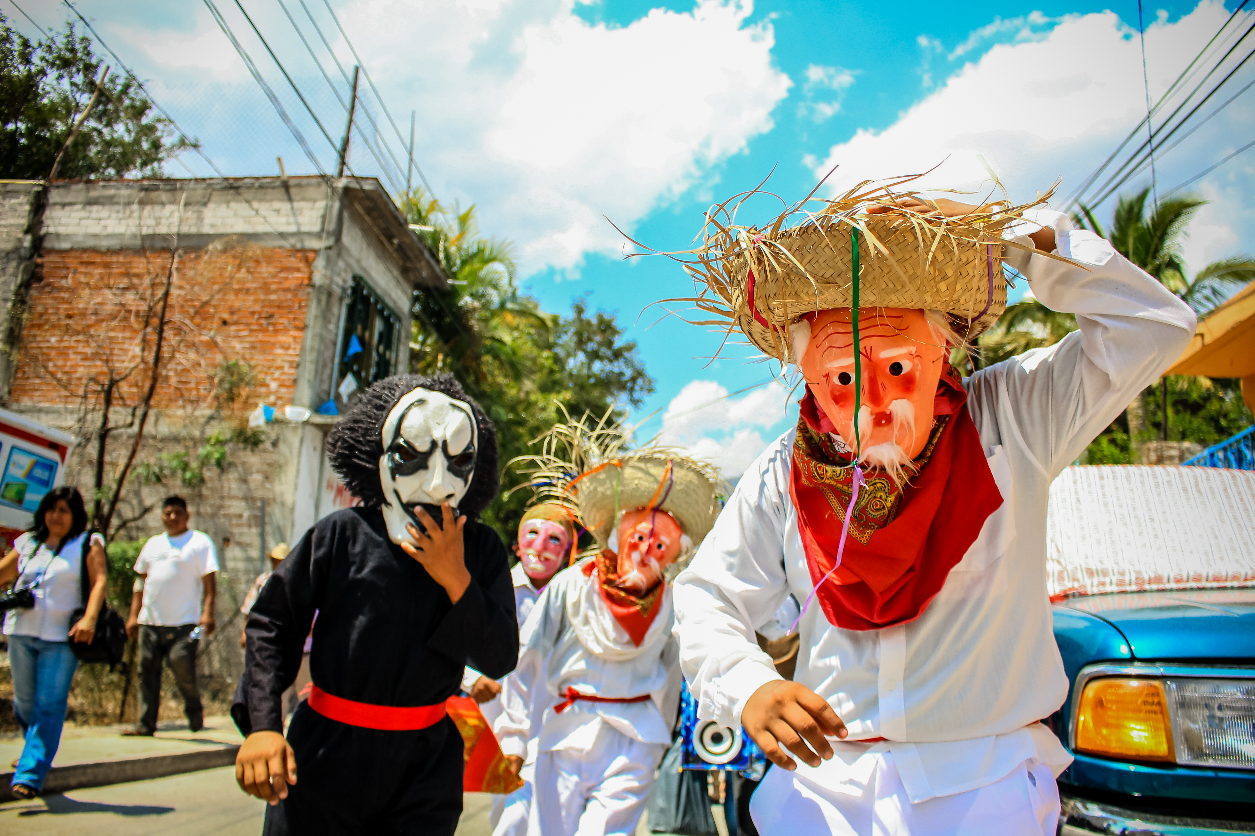 The dance of the old people runs through the streets of the town of Huamuxtitlán Guerrero to give life and joy to the people.